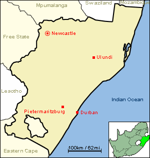 Location map of Newcastle